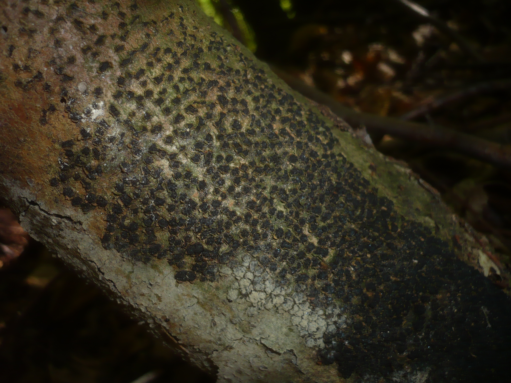 The fungus Melogramma spiniferum (Wallr.) De Not. Photographed in Fromau, Wiesen, Bezirk Mattersburg, Burgenland, Austria. "Notes: Recognized by sight: on stem ground of dead beech (confined to that substrate) "